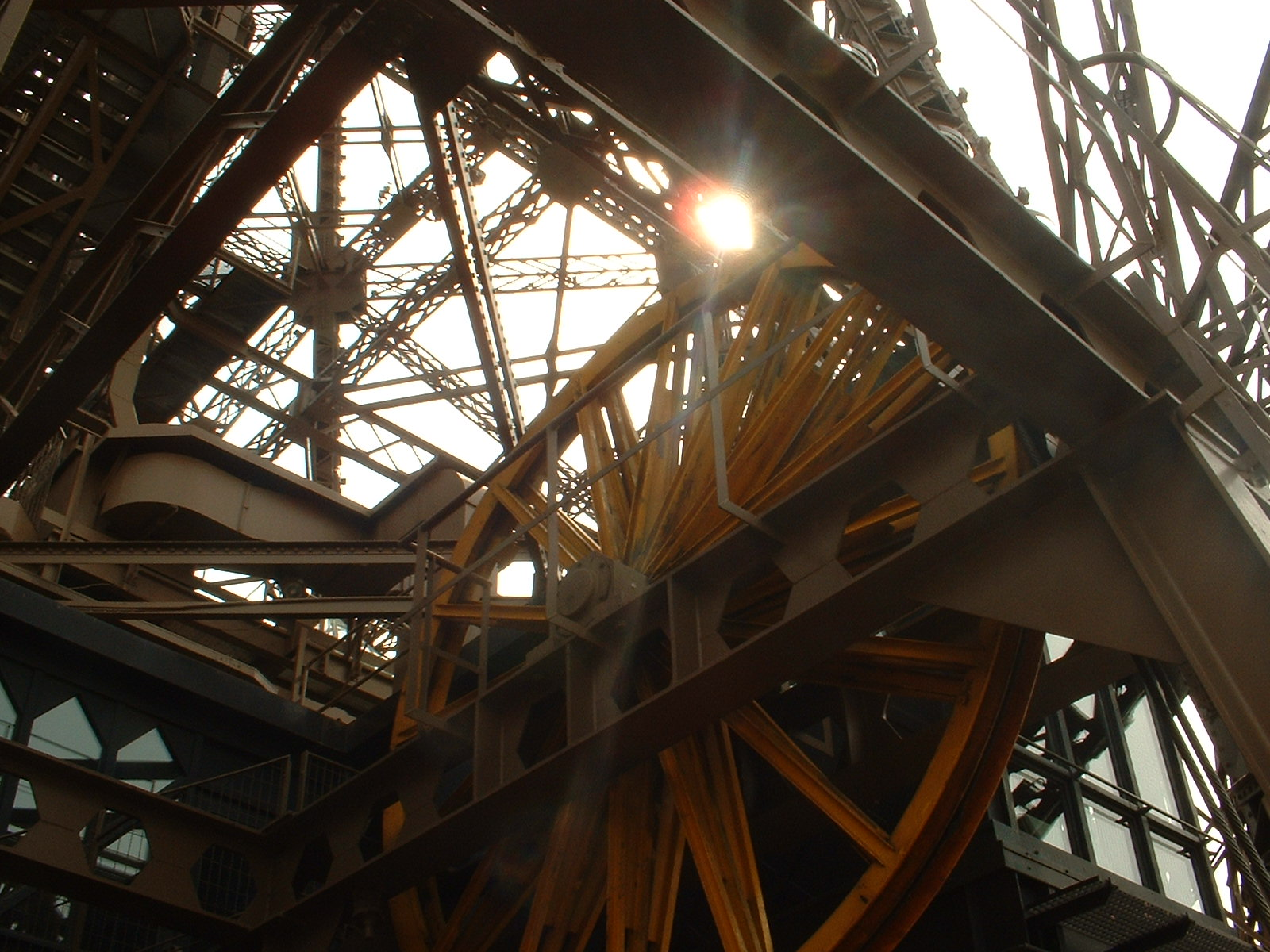 An elevator pulley in the Eiffel Tower.